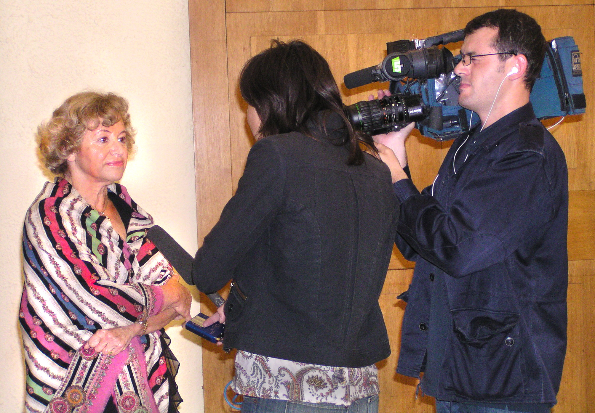 Catherine Cesarsky, new president of IAU